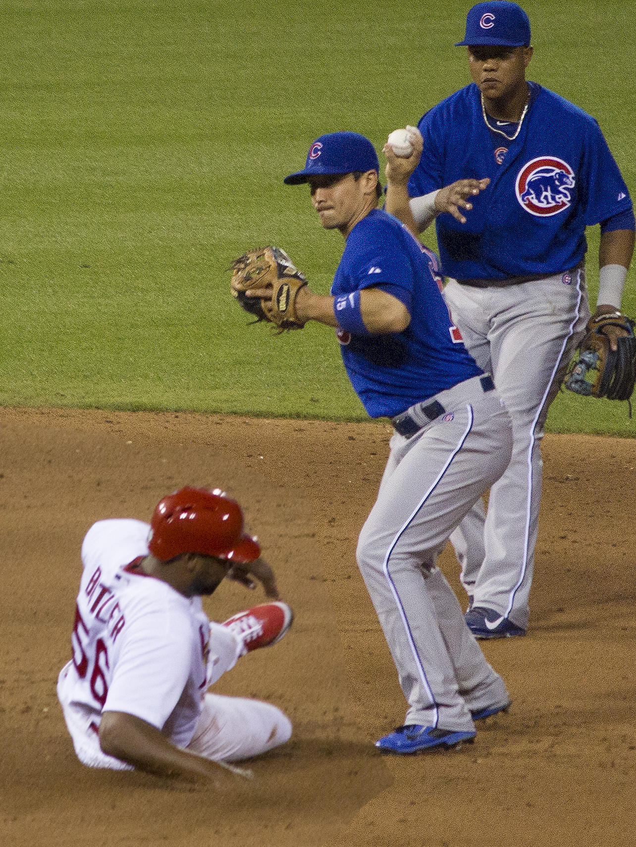 Darwin Barney Chicago cubs second baseman.